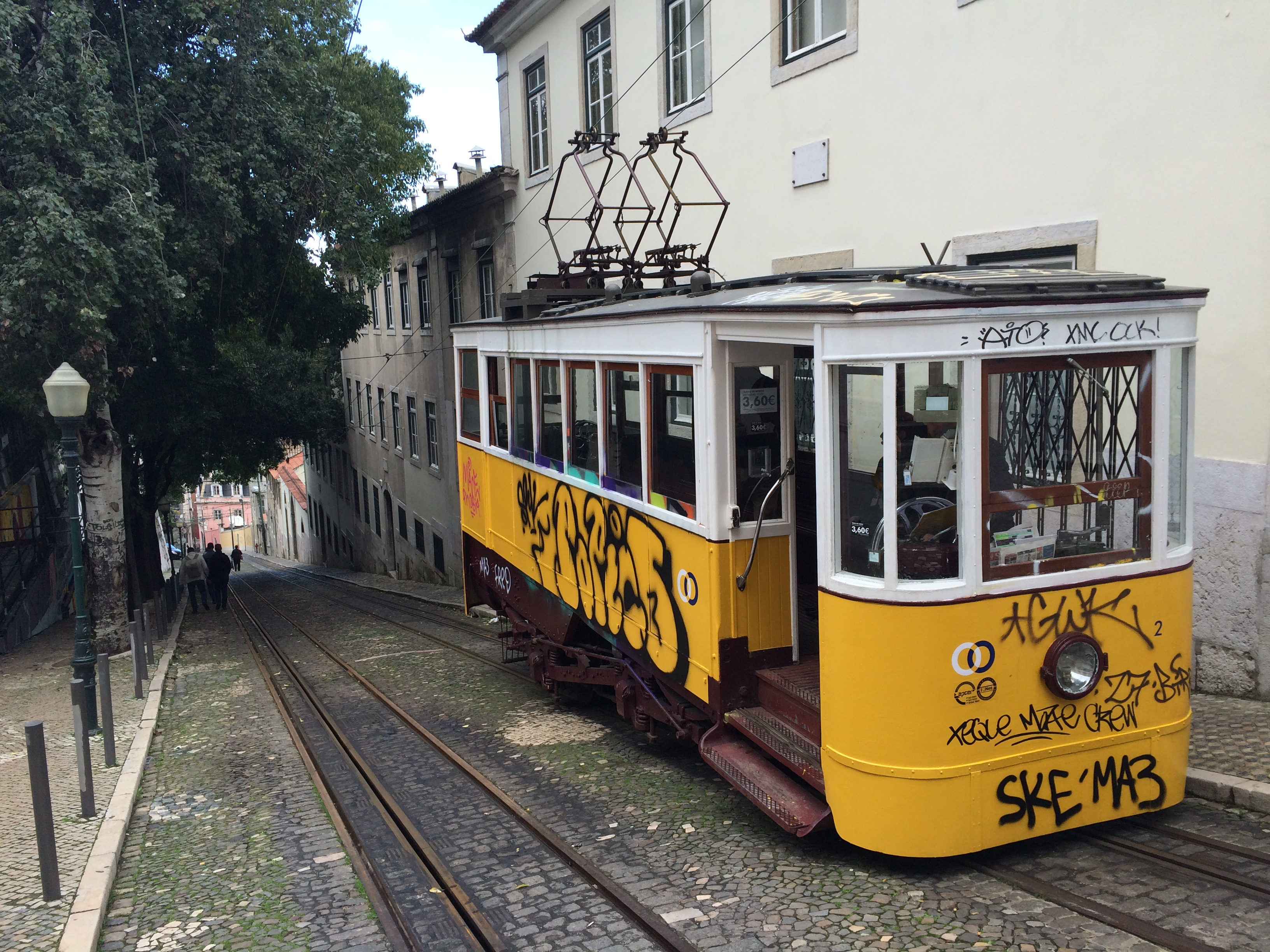 Lisbon revisited